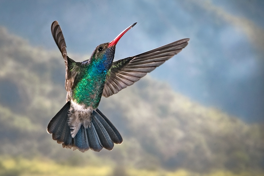 Broad-billed Hummingbird male, Madera Canyon, Arizona